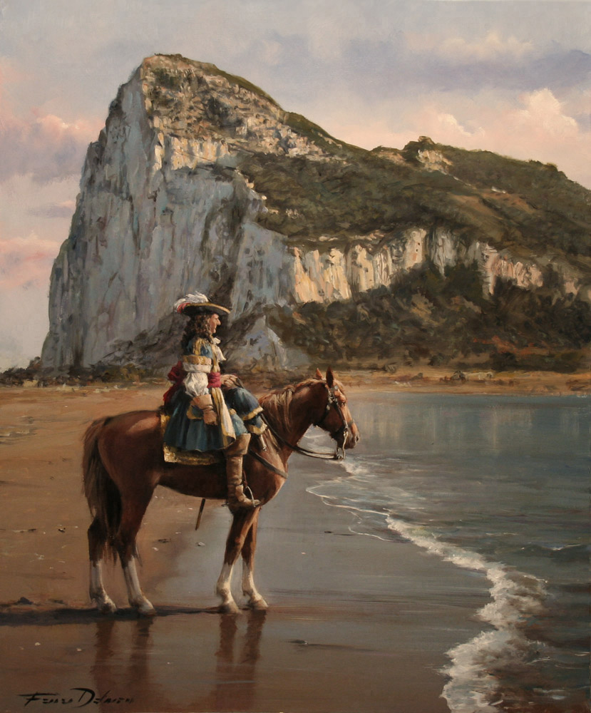 El último de Gibraltar by Augusto Ferrer Dalmau.